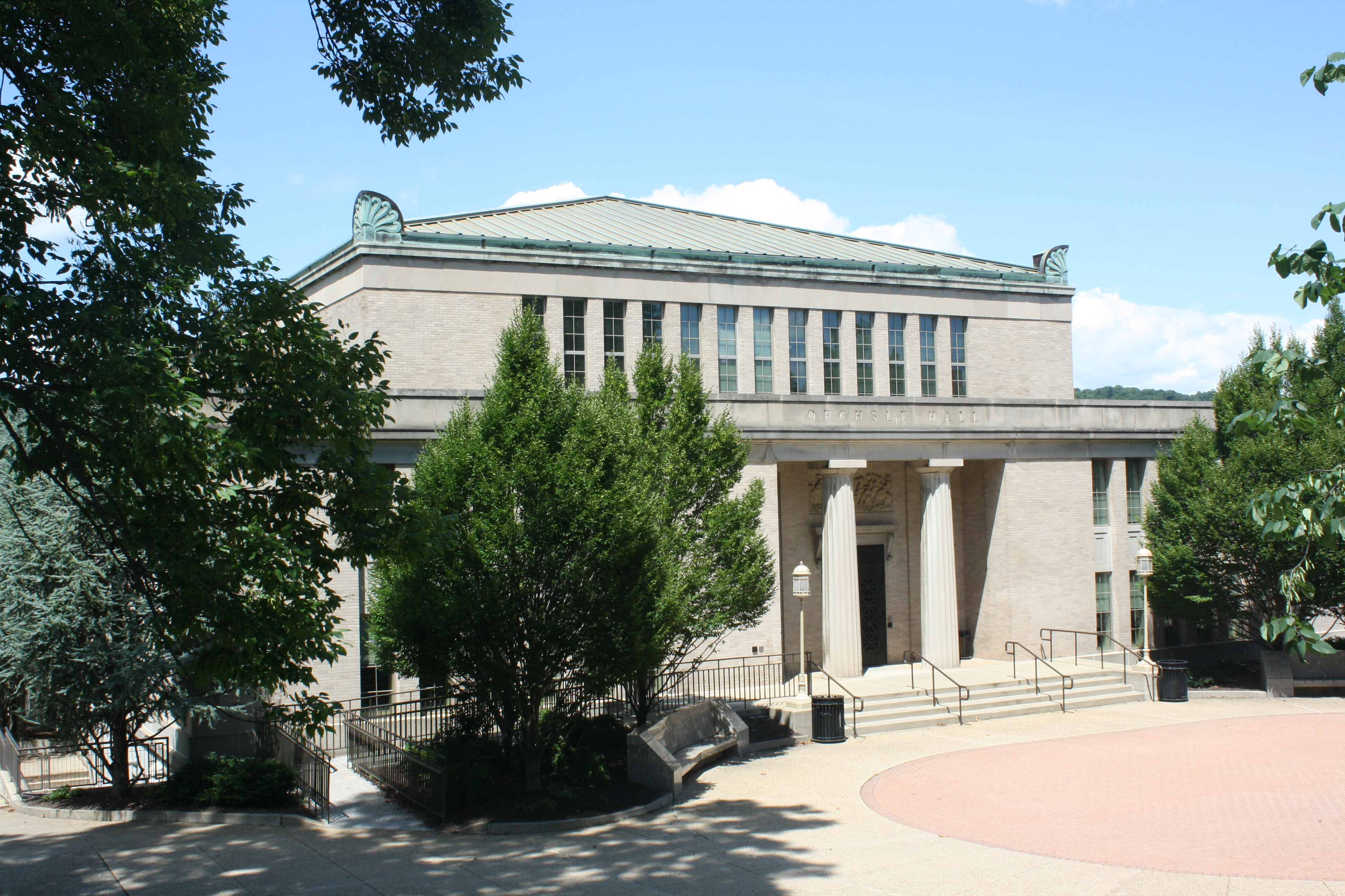 Lafayette College, Oechsle Hall, College Hill, Easton, PA.